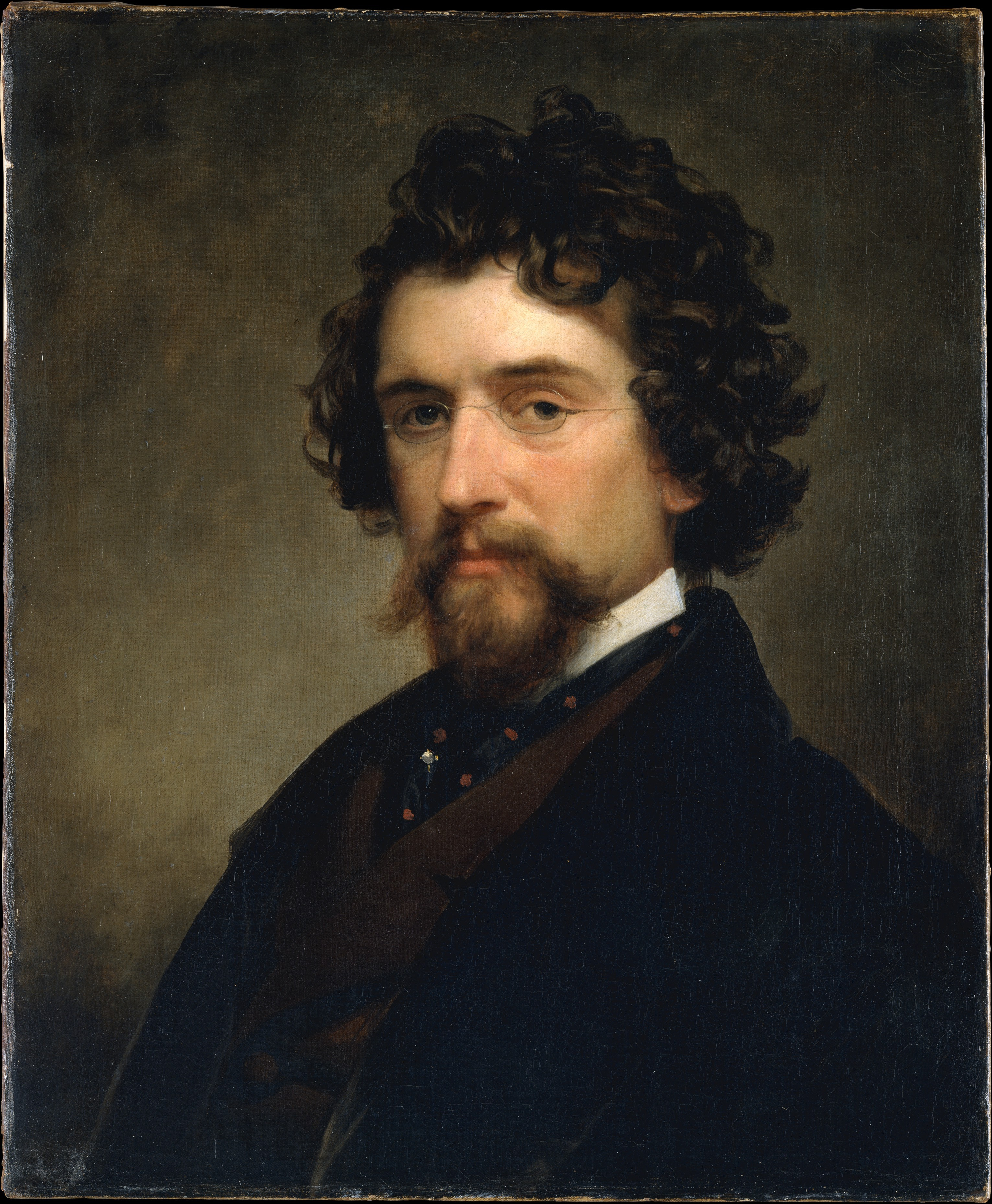 Mathew B. Brady Artist:Charles Loring Elliott (1812–1868) Date:1857 Medium:Oil on canvas Dimensions:24 x 20 in. (61 x 50.8 cm) Classification:Paintings Credit Line:Gift of the Friends of Mathew Brady, 1896